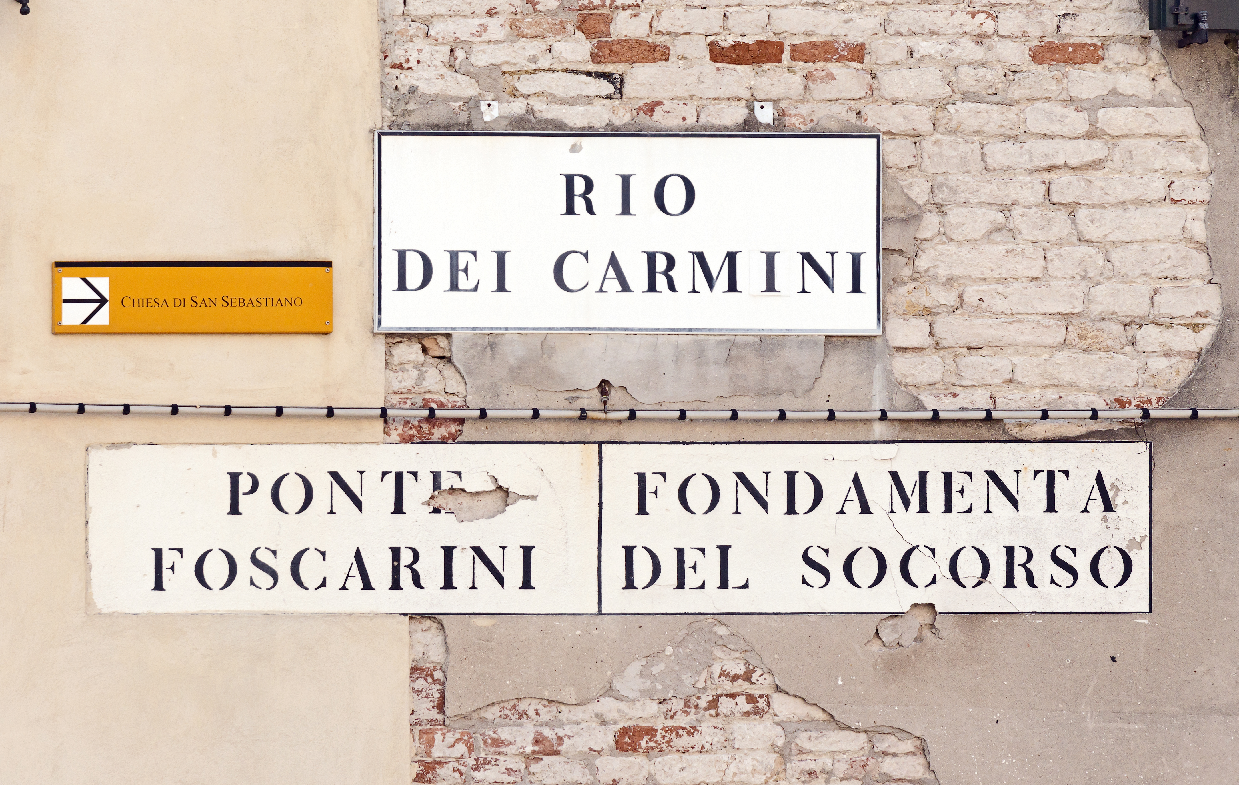 Rio dei Carmini to Venice. Information signs at the estern limit of the Rio.